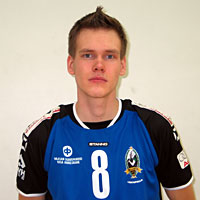 Finland volleyball player Juha Järvenpää.